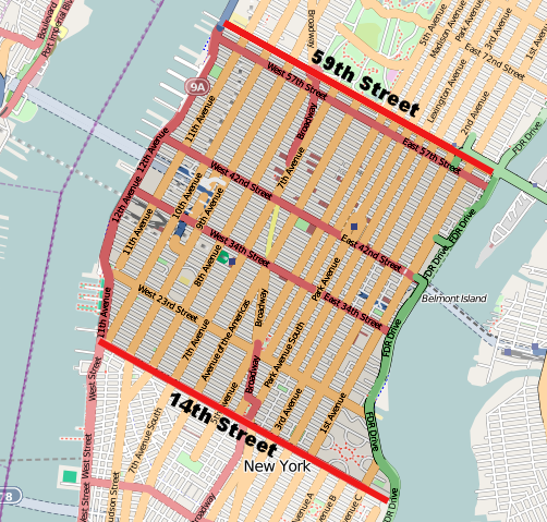 Manhattan, 14th Street, Canal Street This map may be incomplete, and may contain errors. Don't rely solely on it for navigation.